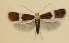 Stainton’s Natural History of the Tineina (1855–1873): Ectoedemia arcuatella